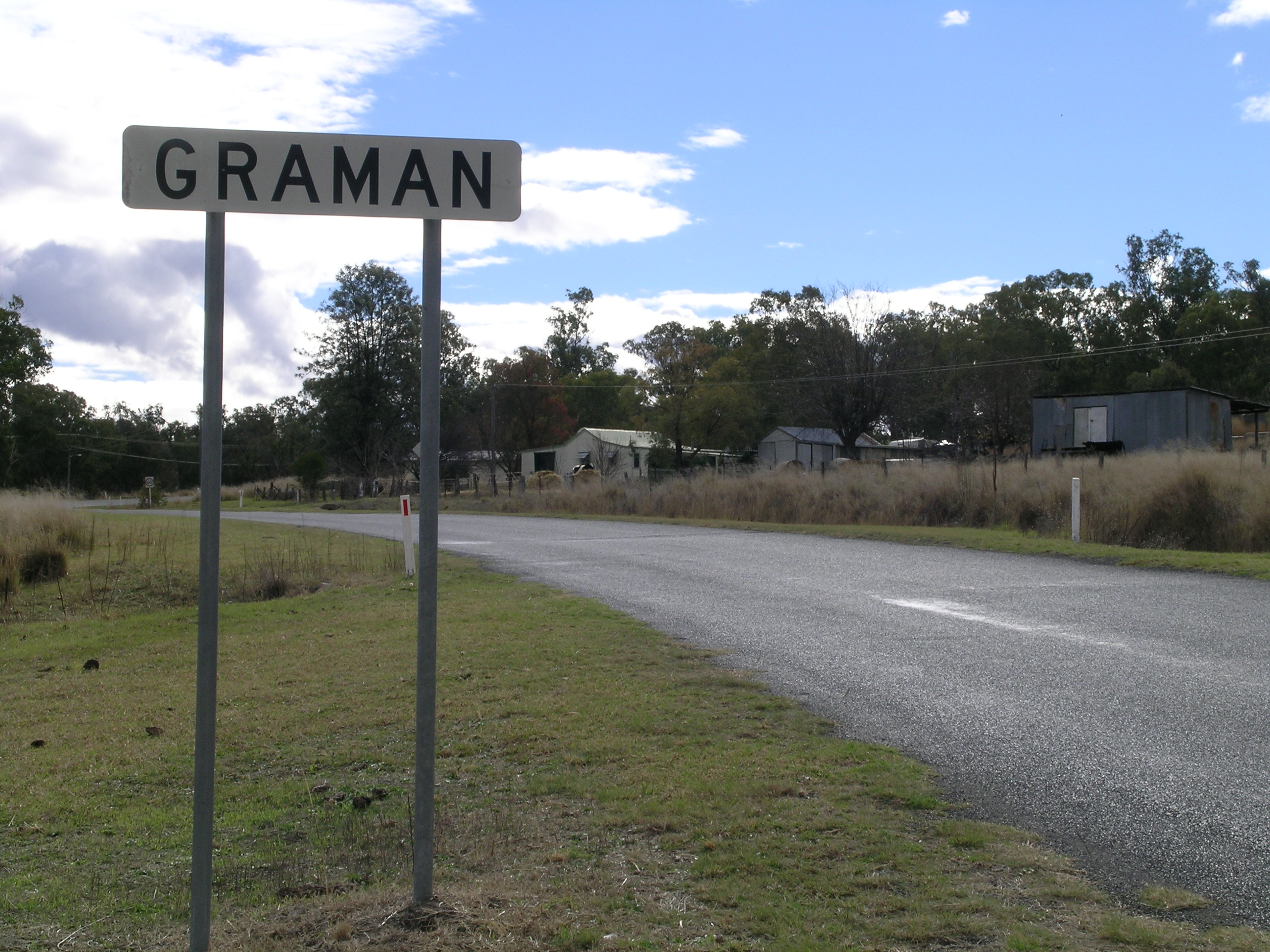 Graman, NSW